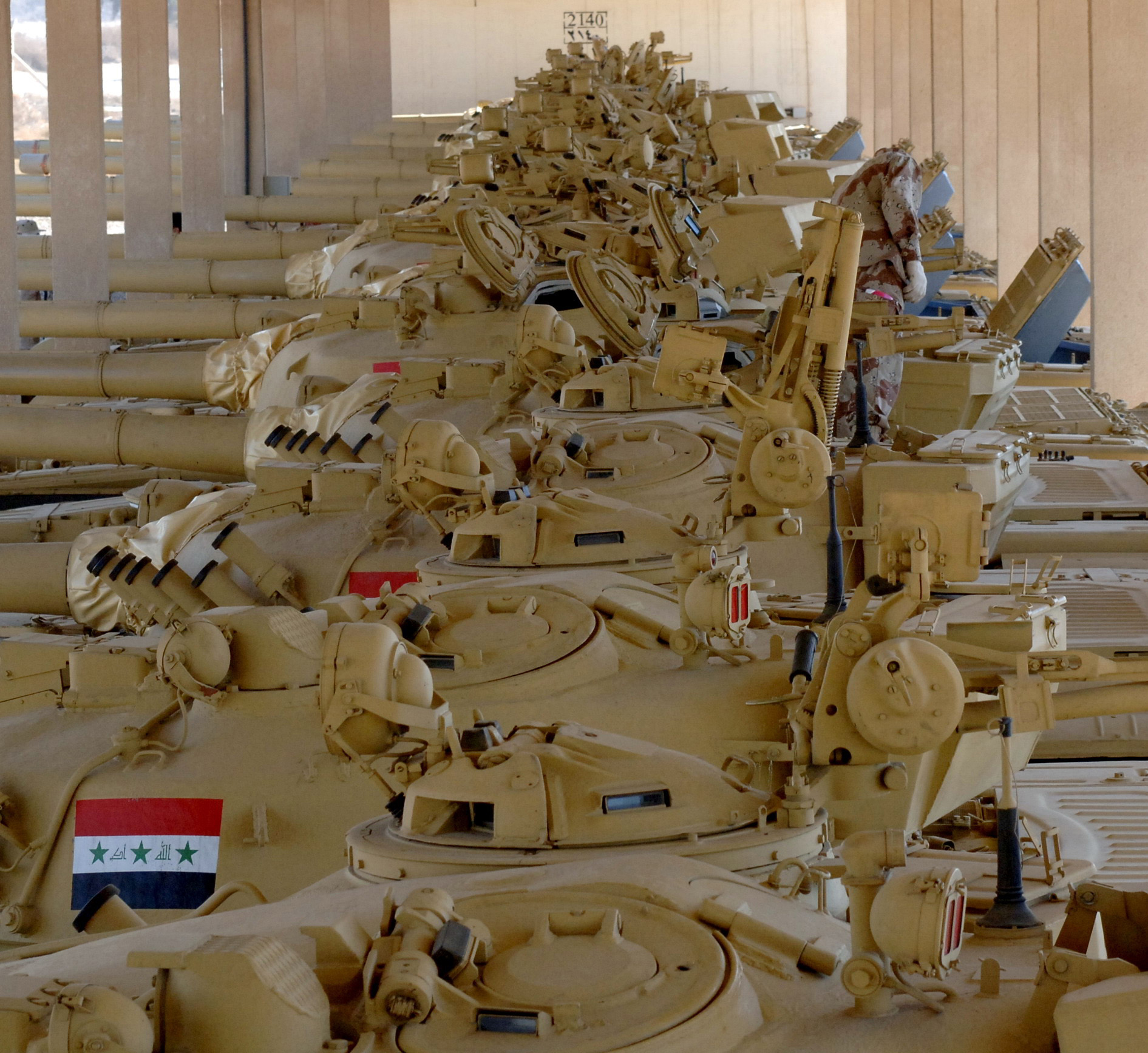 Some of the 70 newly acquired Russian T-72 tanks belonging to the 1st Tank Battalion, 2nd Brigade, 9th Iraqi Army Division, at Taji, Iraq, wait to be serviced Nov. 12, 2005. The tanks recently arrived from Hungary to help strengthen the security forces during the upcoming Iraqi elections.